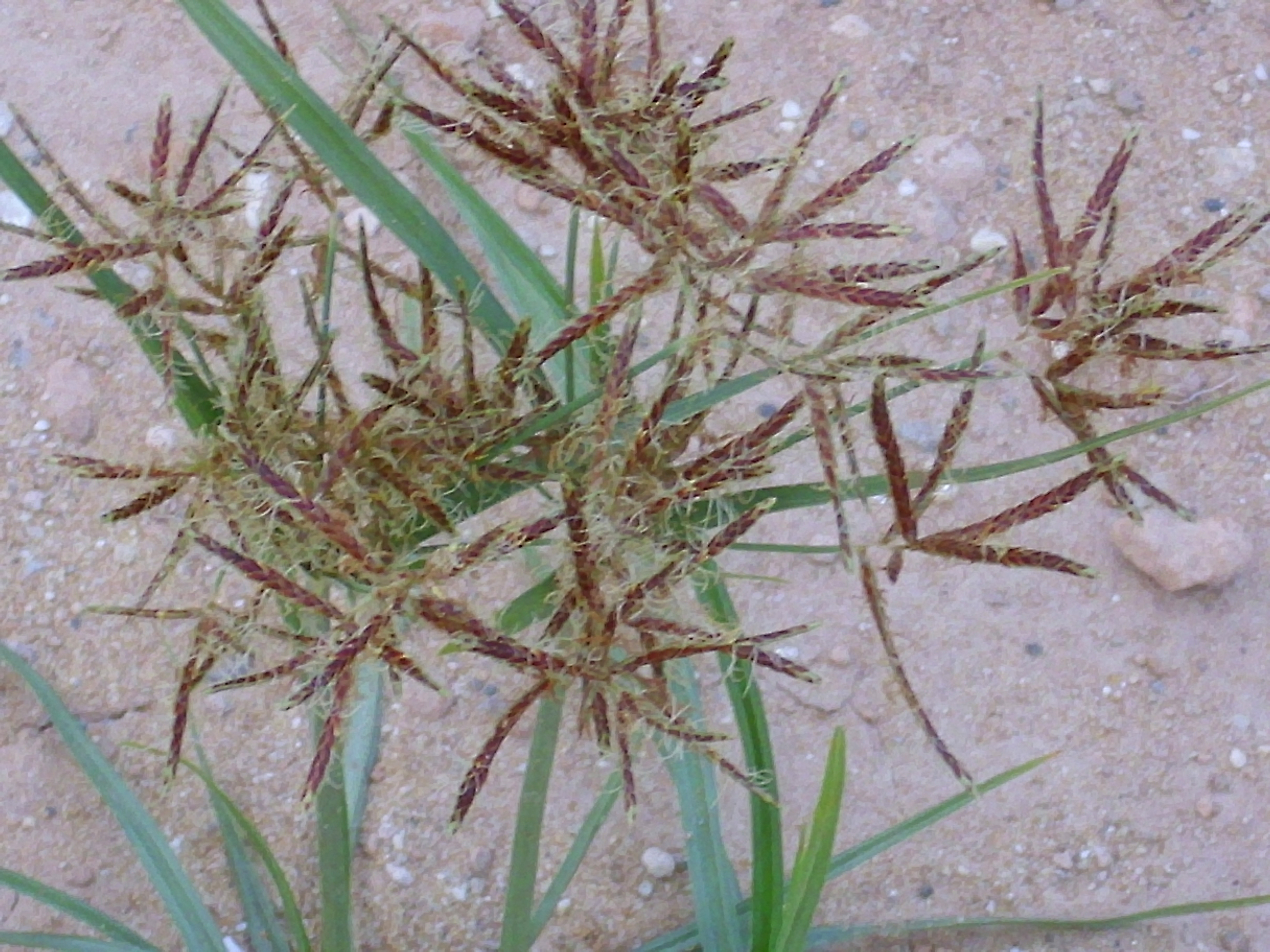 Cyperus rotundus habit, La Mata, Torrevieja, Alicante, Spain.